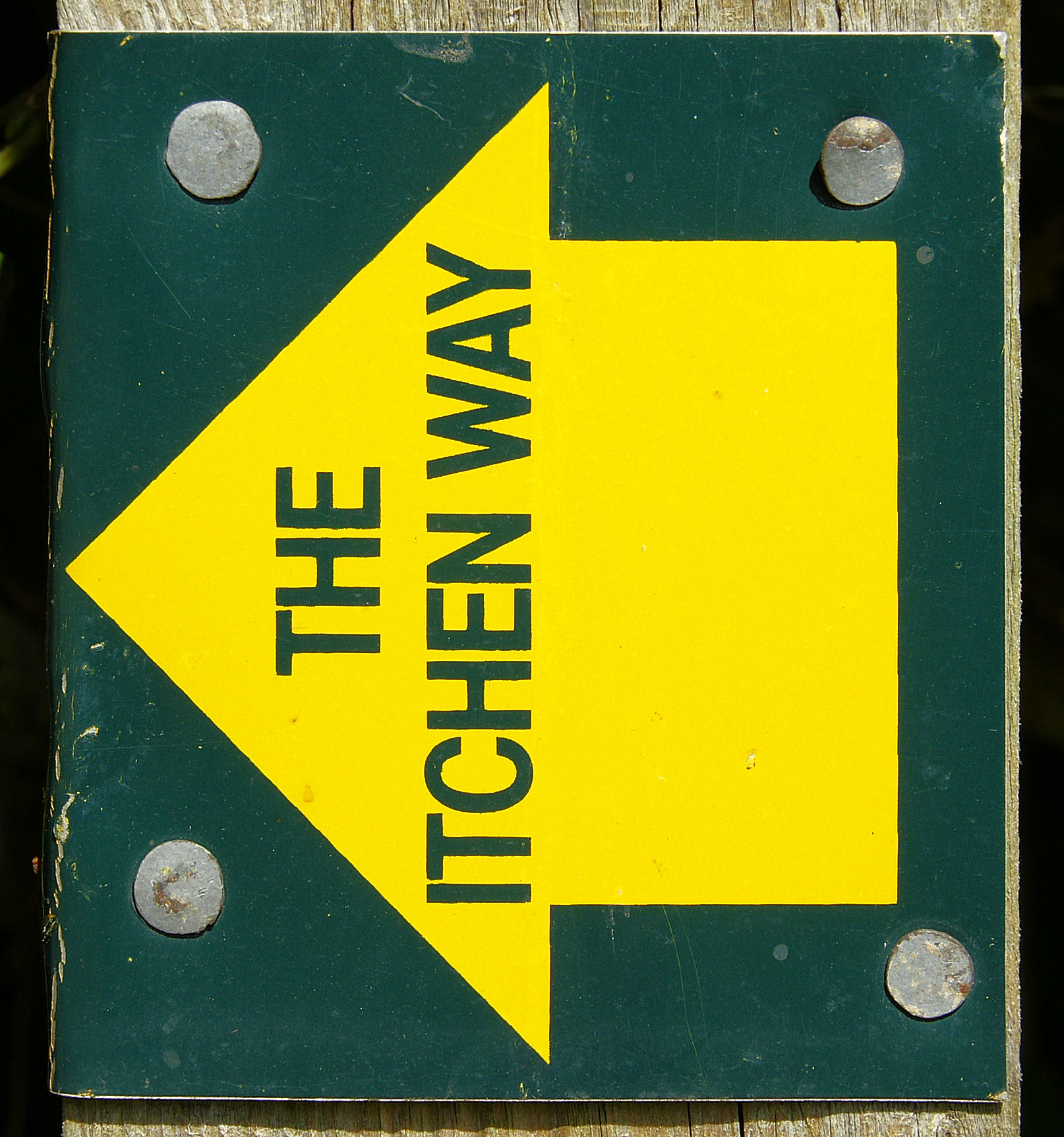 Typical waymark on the Itchen Way long-distance footpath, on a fence post near Cheriton, Hampshire.